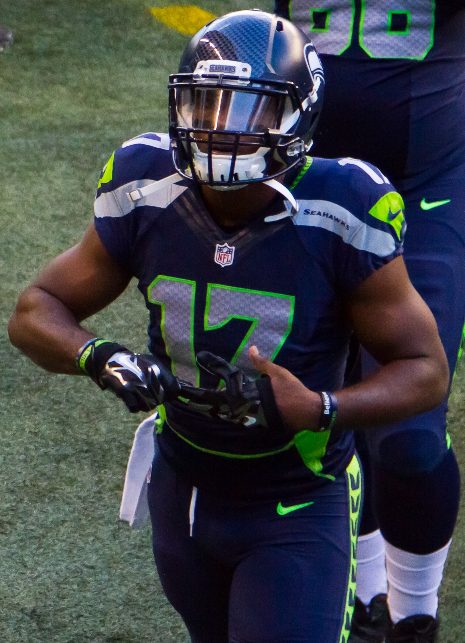 2015 preseason